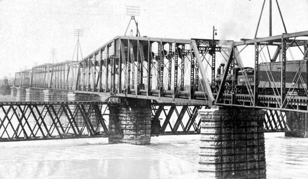 Hannibal and St. Joe R. . Bridge, Kansas City. First bridge over Missouri River.